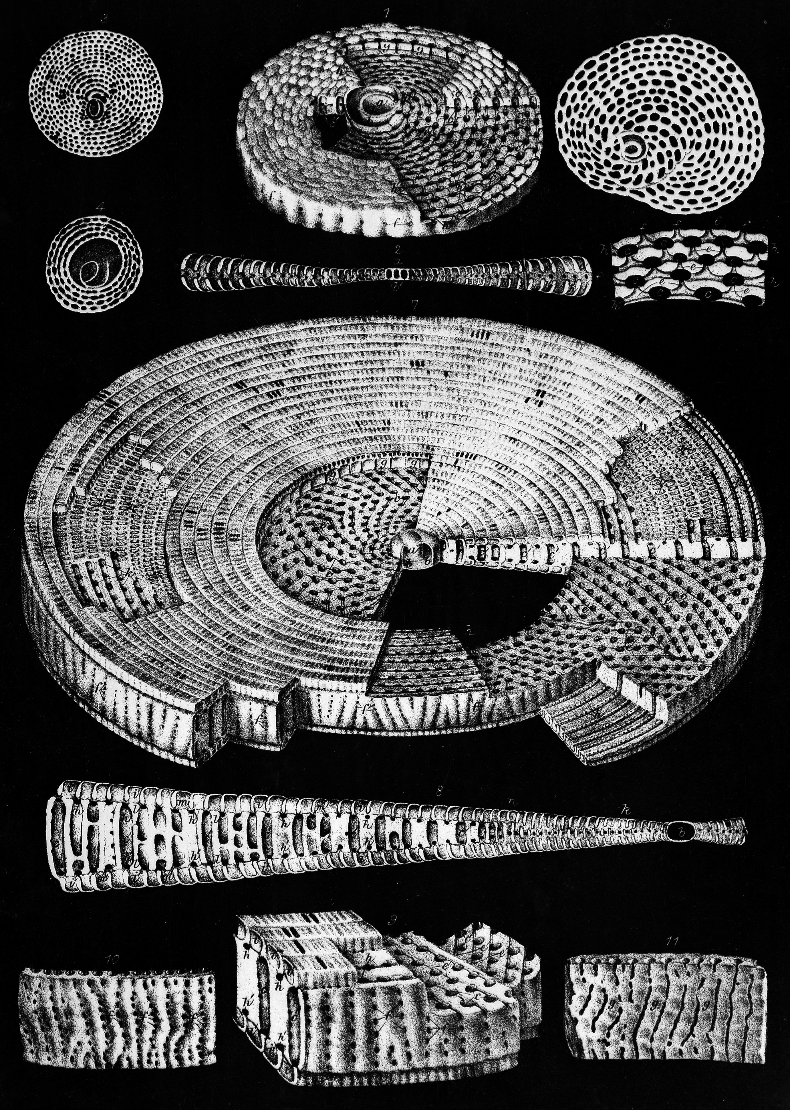 Foraminifera: Orbitolites. Wellcome Images Keywords: Protozoology